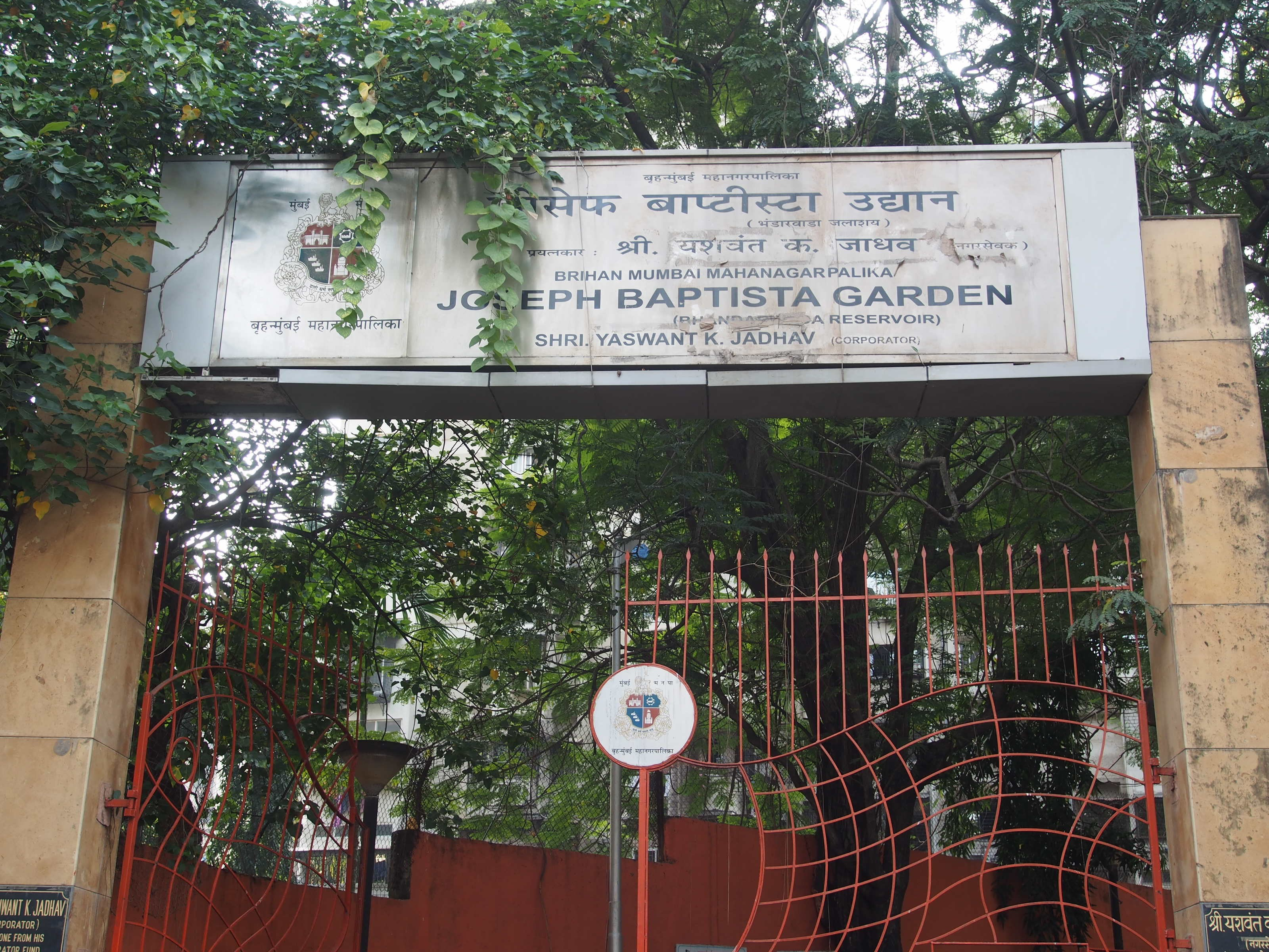 Entry gate of Joseph Baptista Garden, Mazagaon, Mumbai